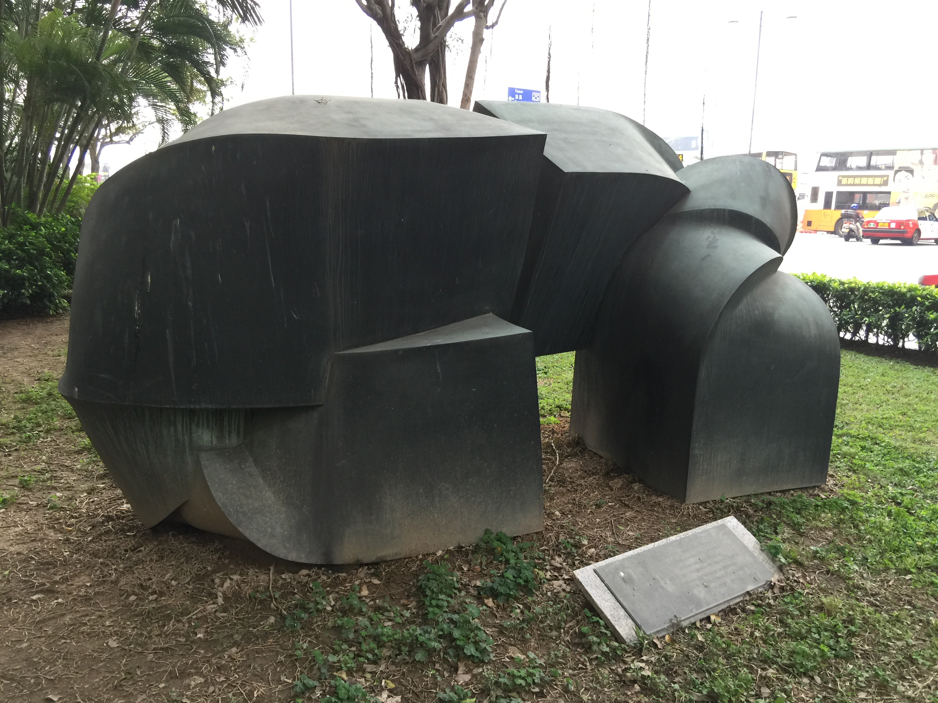 The sculpture "Convention" is located next to the Renaissance Harbour View Hotel Hong Kong. It was unveiled by Prince Charles on November 9, 1989, to commemorate the official opening of the Hong Kong Convention and Exhibition Centre.